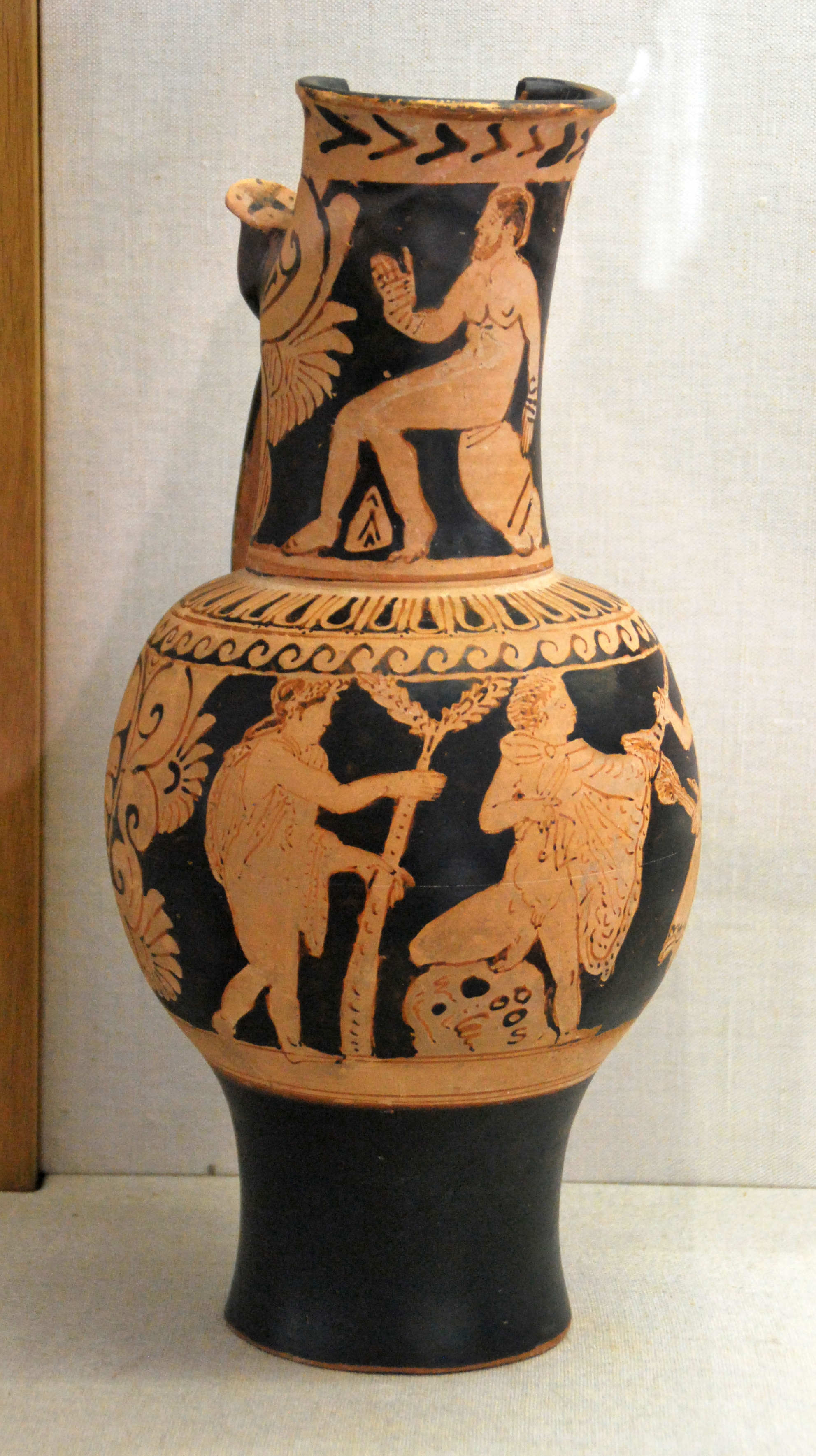 Faliscan red-figure flagon, attributed to the Fluid group; belly image: Orestes flees a fury into the temple of Apollon, neck image: Amykos sits on an amphora; about 350/25 BC; now Antikensammlung Würzburg, inventory number L 813.